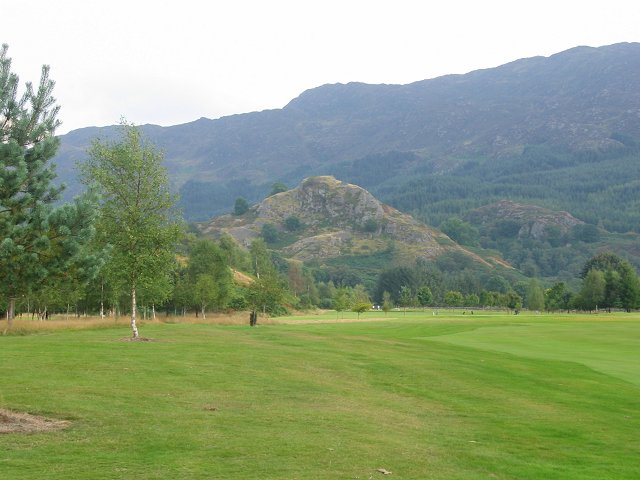 Dundurn, site of a late Iron Age hillfort, in Strathearn